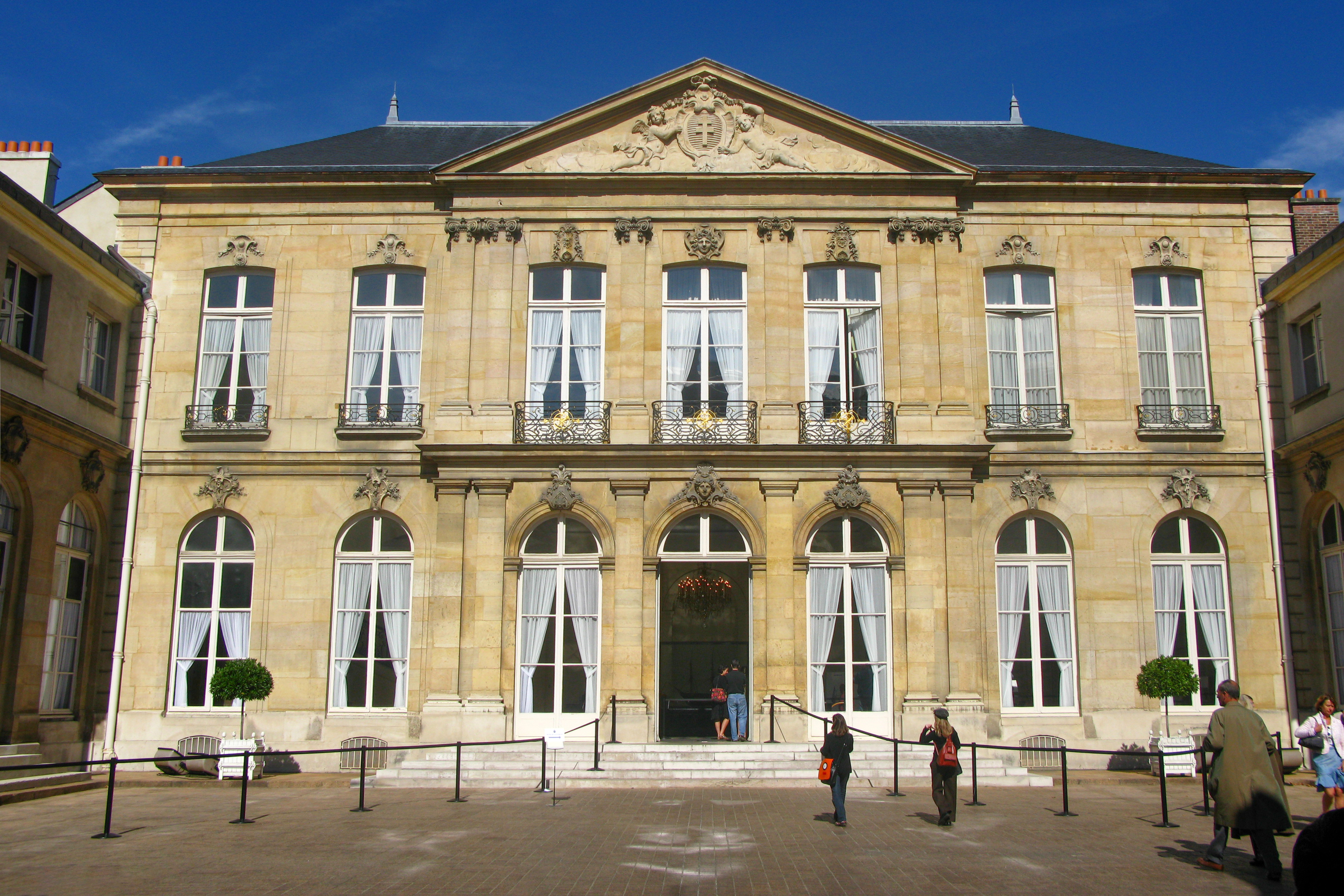 Facade of Hôtel de Brienne, seat of French Department of Defense, in Paris.